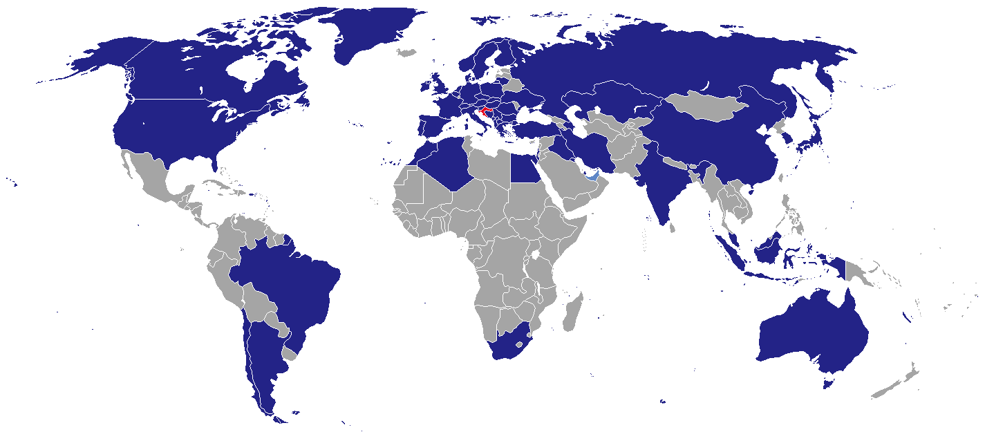 Countries with Croatian diplomatic missions Croatia Embassy